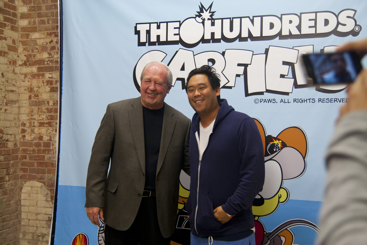 Garfield cartoonist Jim Davis